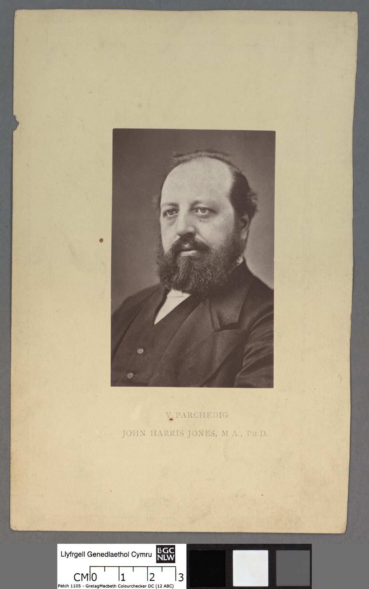 A portrait from the Welsh Portrait Collection at the National Library of Wales. Depicted person: John Harris Jones – Welsh Calvinistic Methodist minister and classical tutor at Trevecka College (1827-1885)